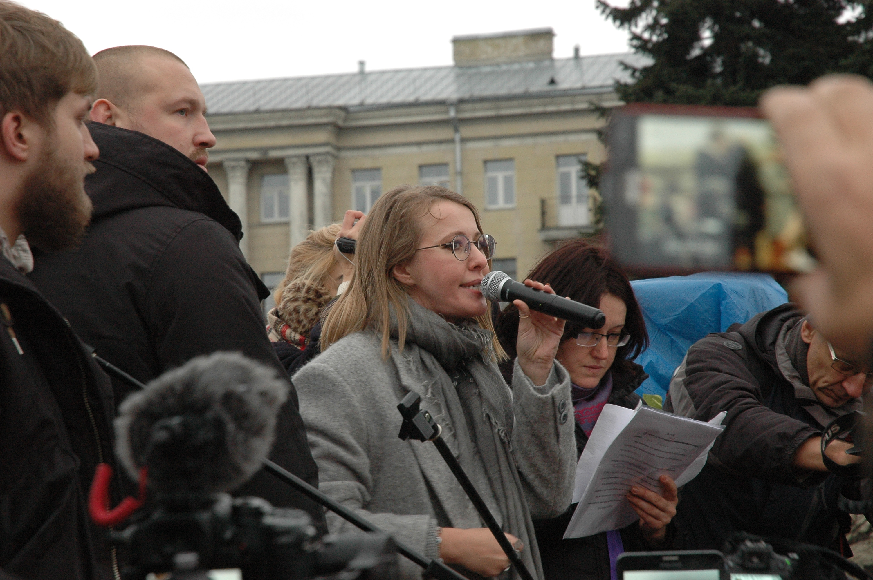 Xenia Sobchak speaking. 2017-11-11 Meeting to support education and science (Lenin square, St. Petersburg, Russia).